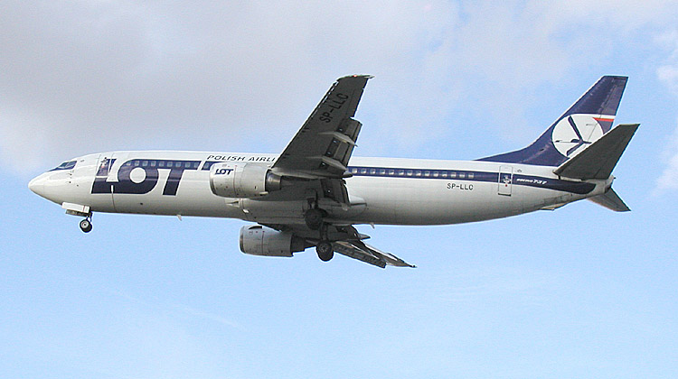 Boeing 737 of LOT (SP-LLC) on the approach to London (Heathrow) Airport.